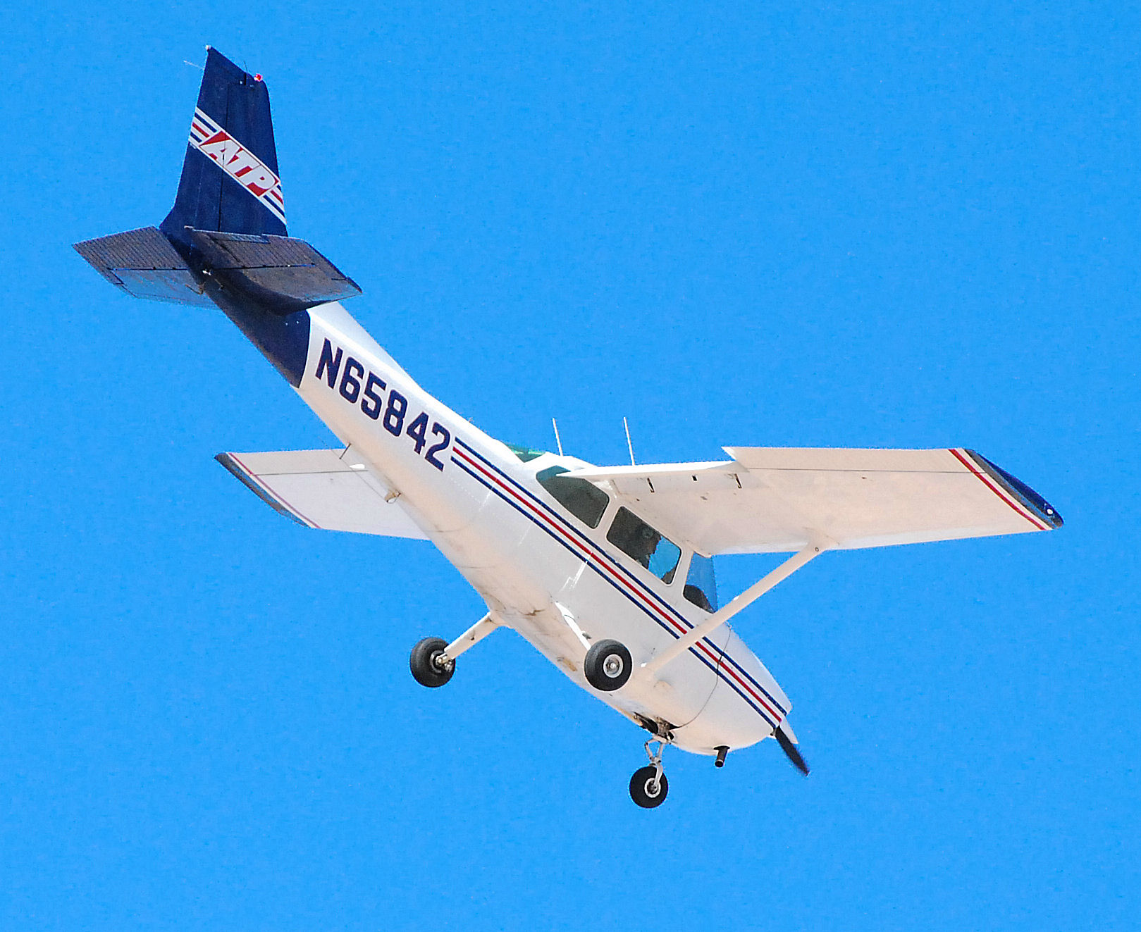 North Las Vegas Airport (IATA: VGT, ICAO: KVGT, FAA LID: VGT) Photo: Tomas Del Coro 3-12-2010